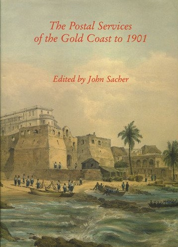 The postal services of the Gold Coast to 1901 book cover featuring a print published in 1874 by Thomas McLean, 7 Haymarket, London: "Cape Coast Castle - Zouaves embarking for Sierra Leone".